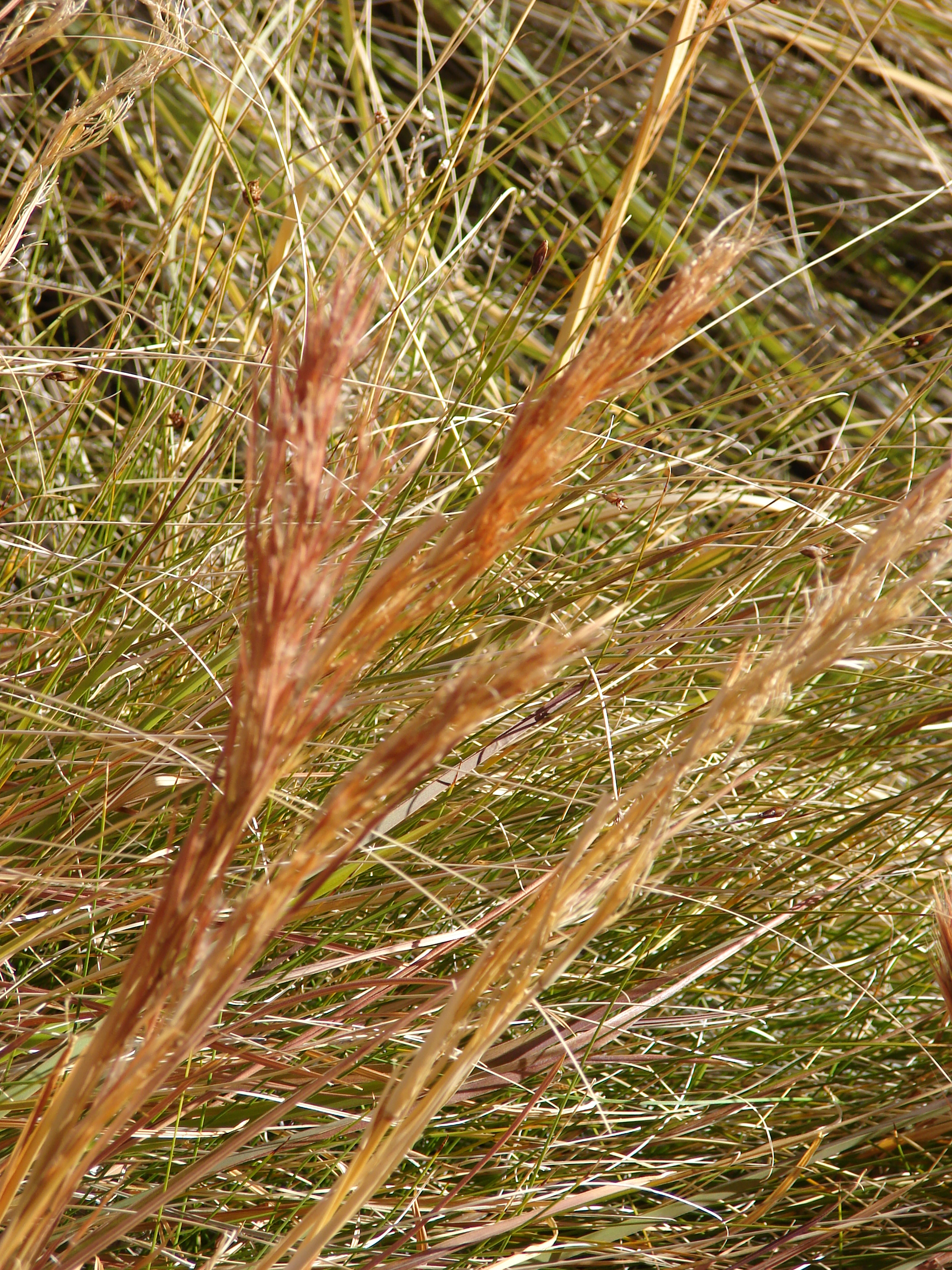 Andropogon glomeratus (inflorescences). Location: Nevada, Calico Basin